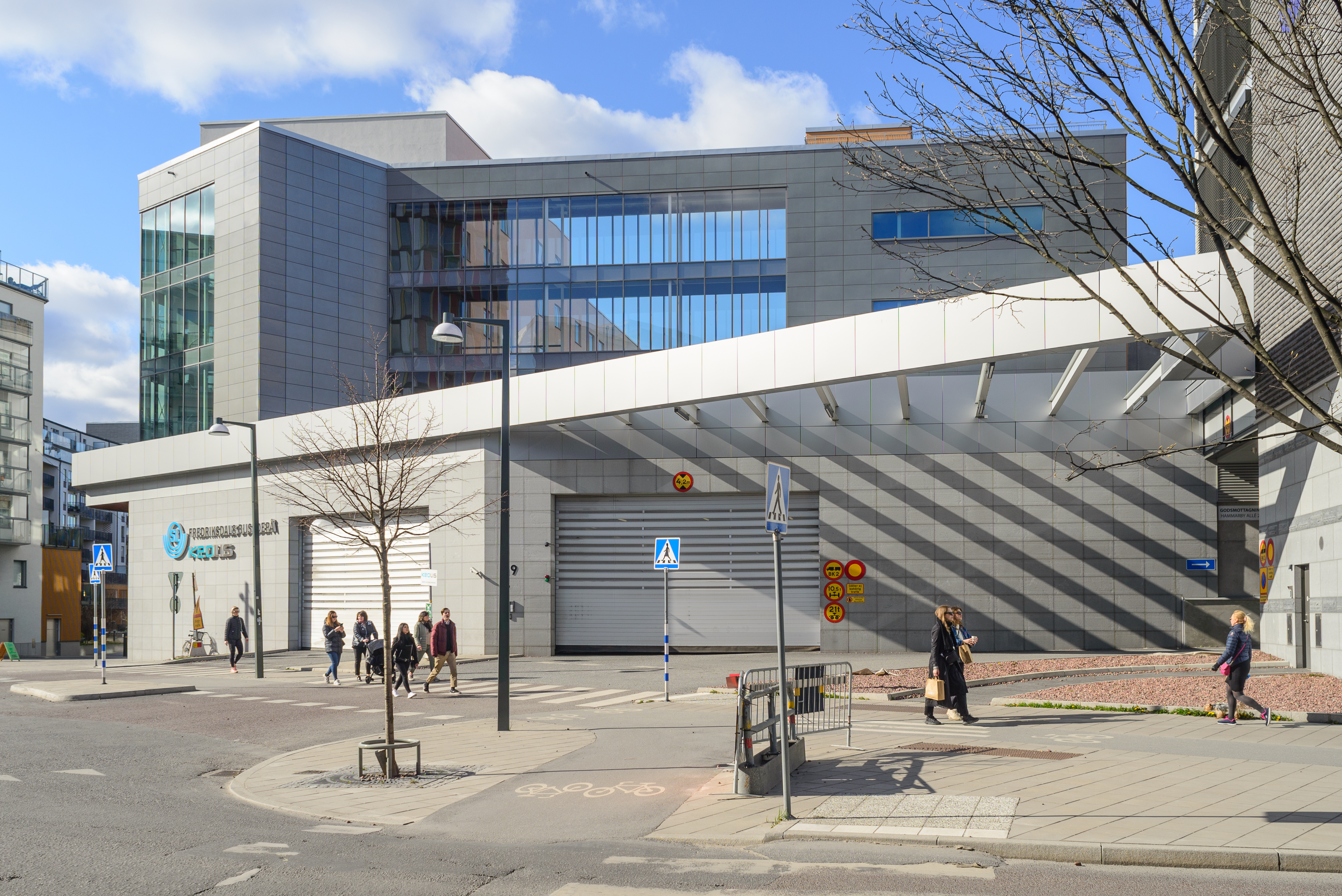 Fredriksdals bussdepå